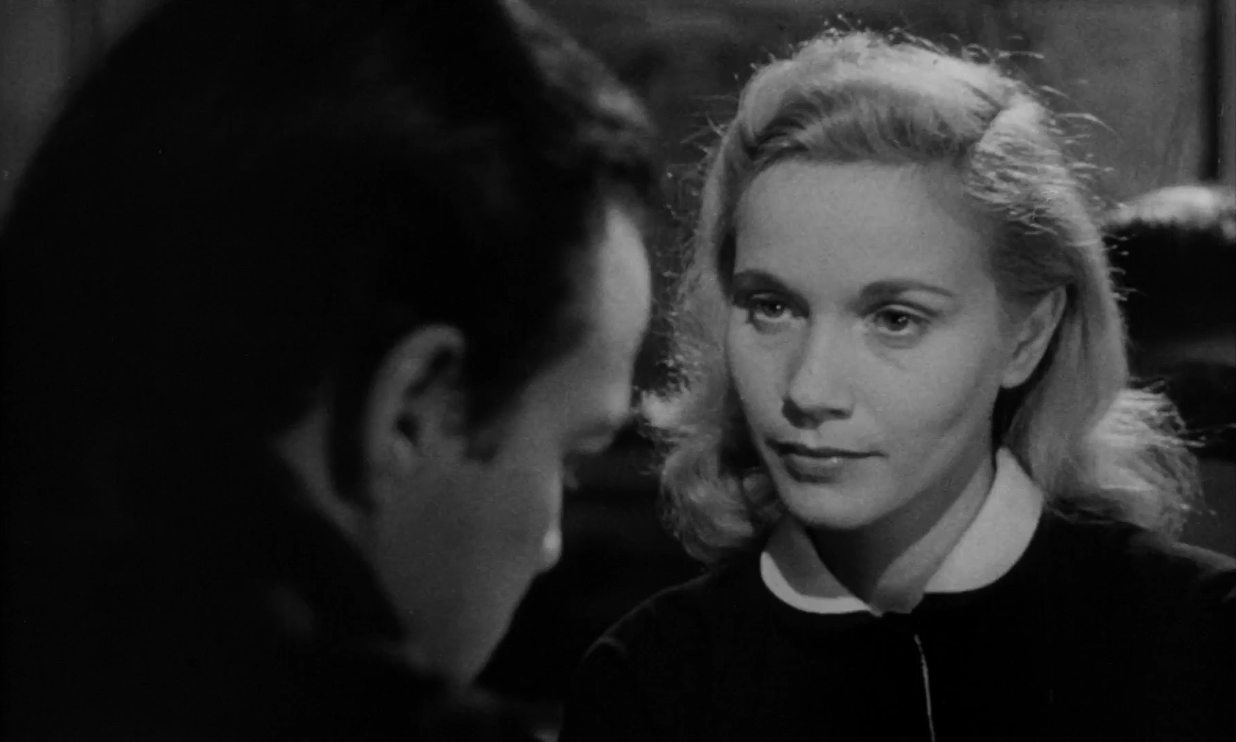 Marlon Brando and Eva Marie Saint in a screenshot from the trailer for the film On the Waterfront.